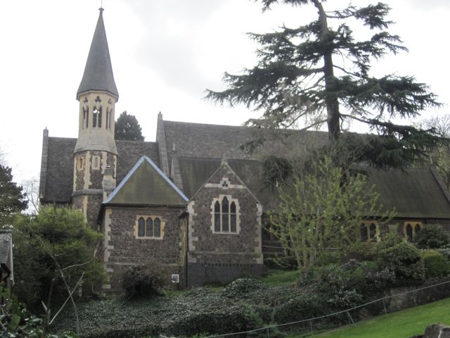 Holy Trinity parish church, Malvern, Worcestershire, seen from the north